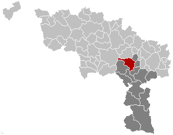 Map, municipality belgium Binche